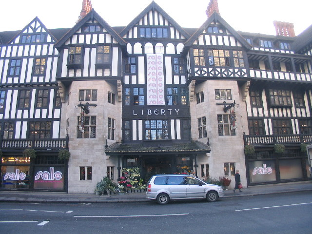 Tudor House, Liberty, London. This is the Great Marlborough Street side of the fashionable London Store. It was built in 1920's with oak timbers from two old naval vessels.